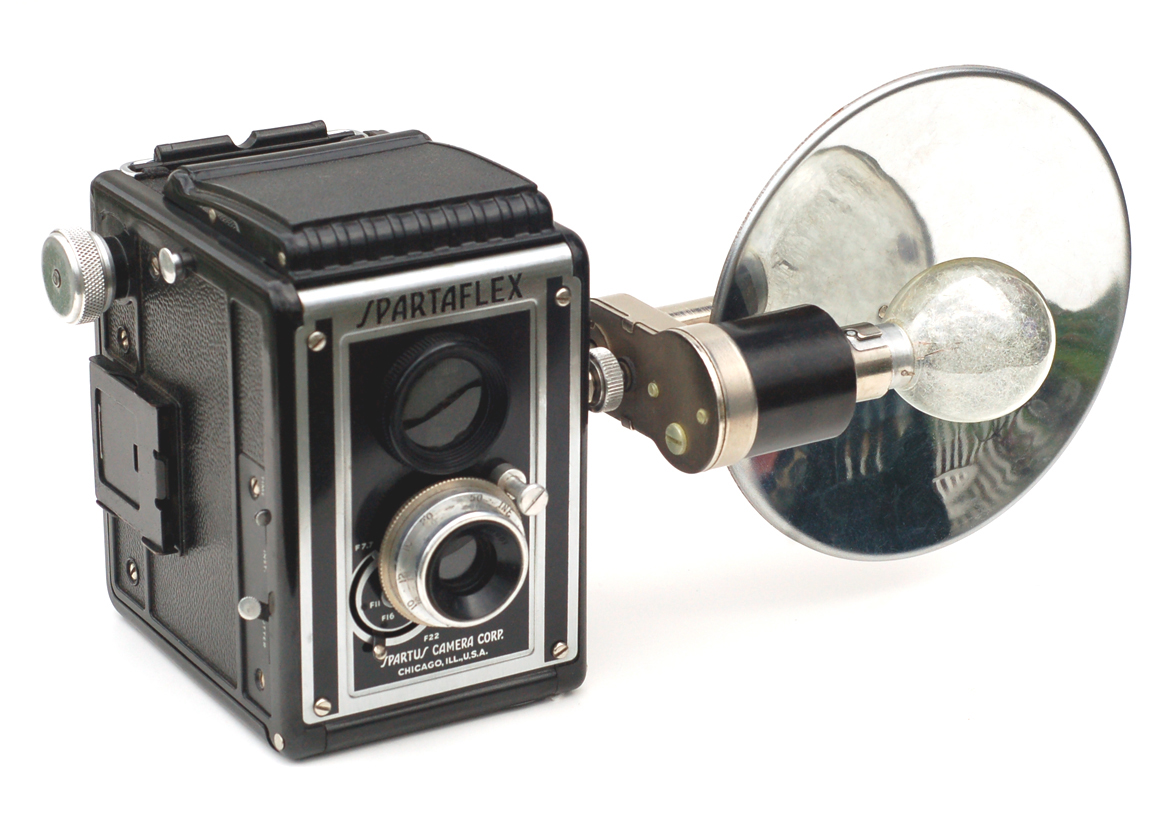 The Spartaflex is a plastic TLR, made in Chicago sometime in the 1940s, apparently with a few variations. Features include adjustable apertures, a focusing lens, waist-level & sport finders, and instant/time shutter speed settings. I love the awesome flash unit that came with it.